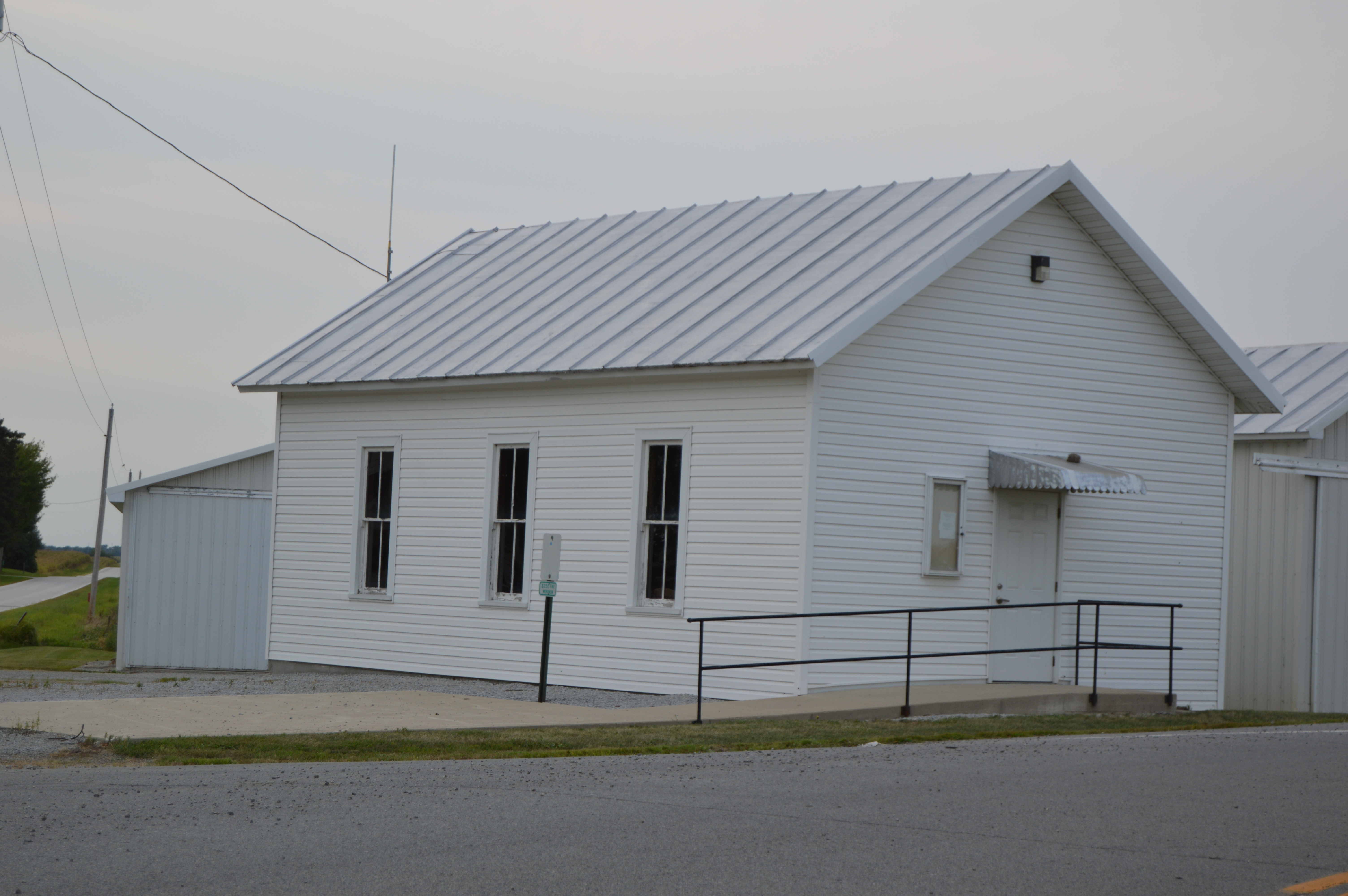 Southern side and front of the Jackson Township hall, located at 14750 State Route 37 east of Patterson in Jackson Township, Wyandot County, Ohio, United States.